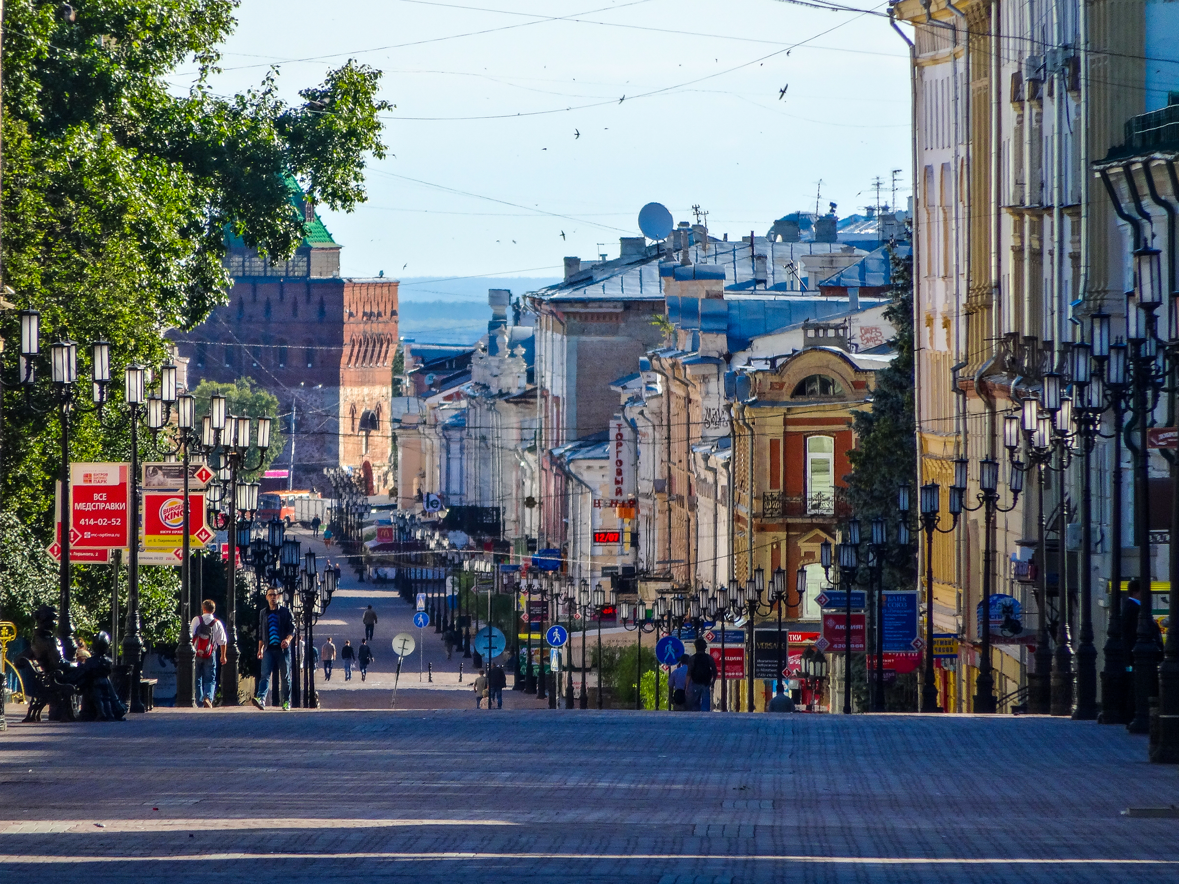 Nizhniy Novgorod, Russia. View to Bolshaya Pokrovskaya street